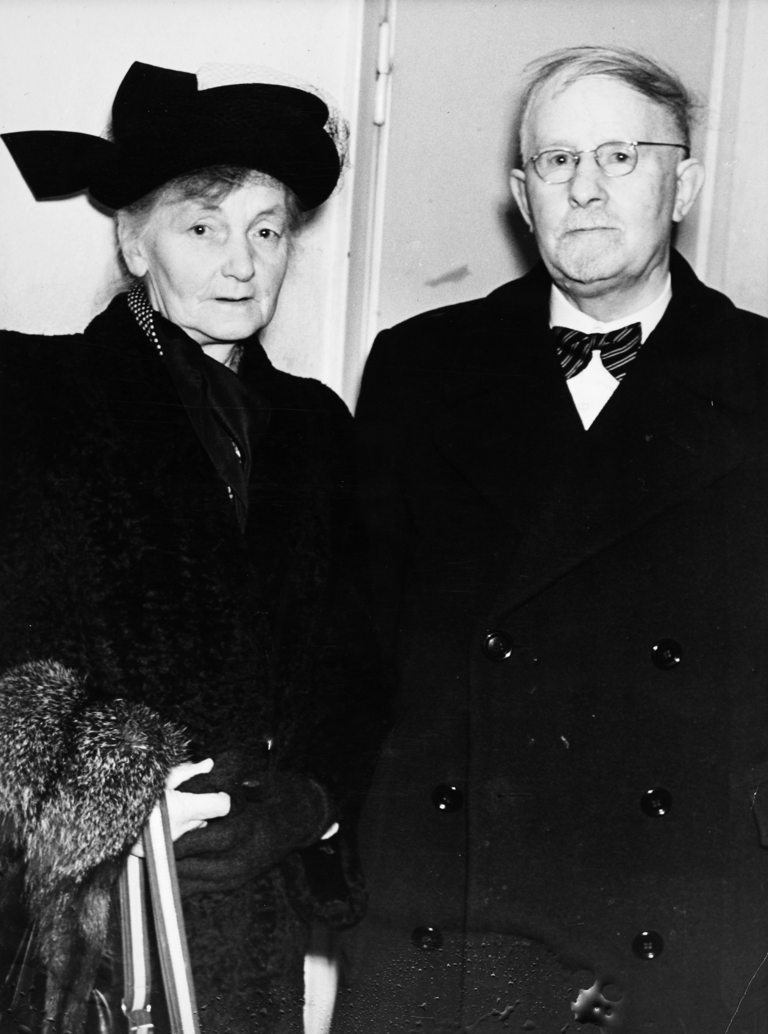 Nobel price winner in medicines Professor Walter Rudolf Hess with his wife arrived to Bromma Airport, 1949-12-06.